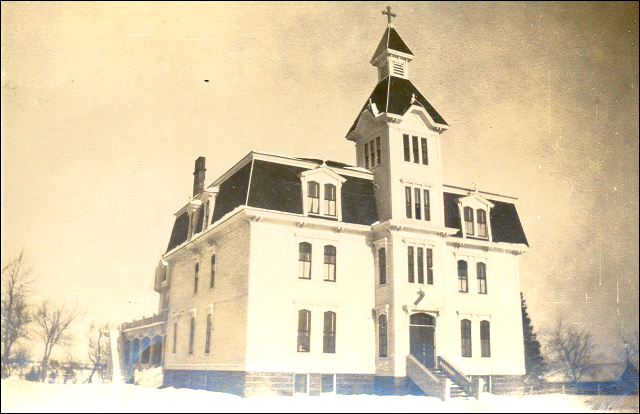 Convent in Bouctouche, circa 1924.